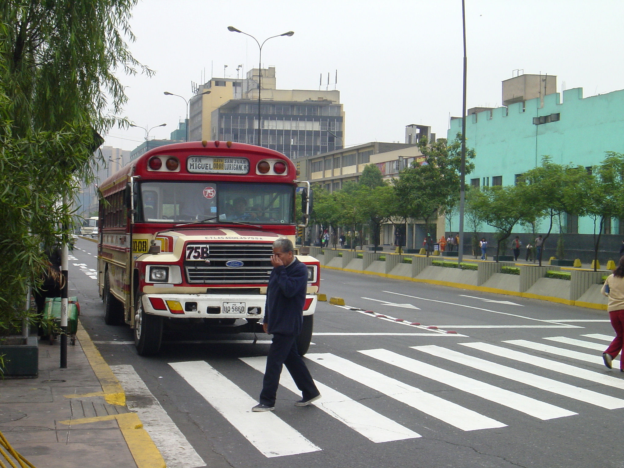 A bus waiting at a pedestrian crossing in Lima